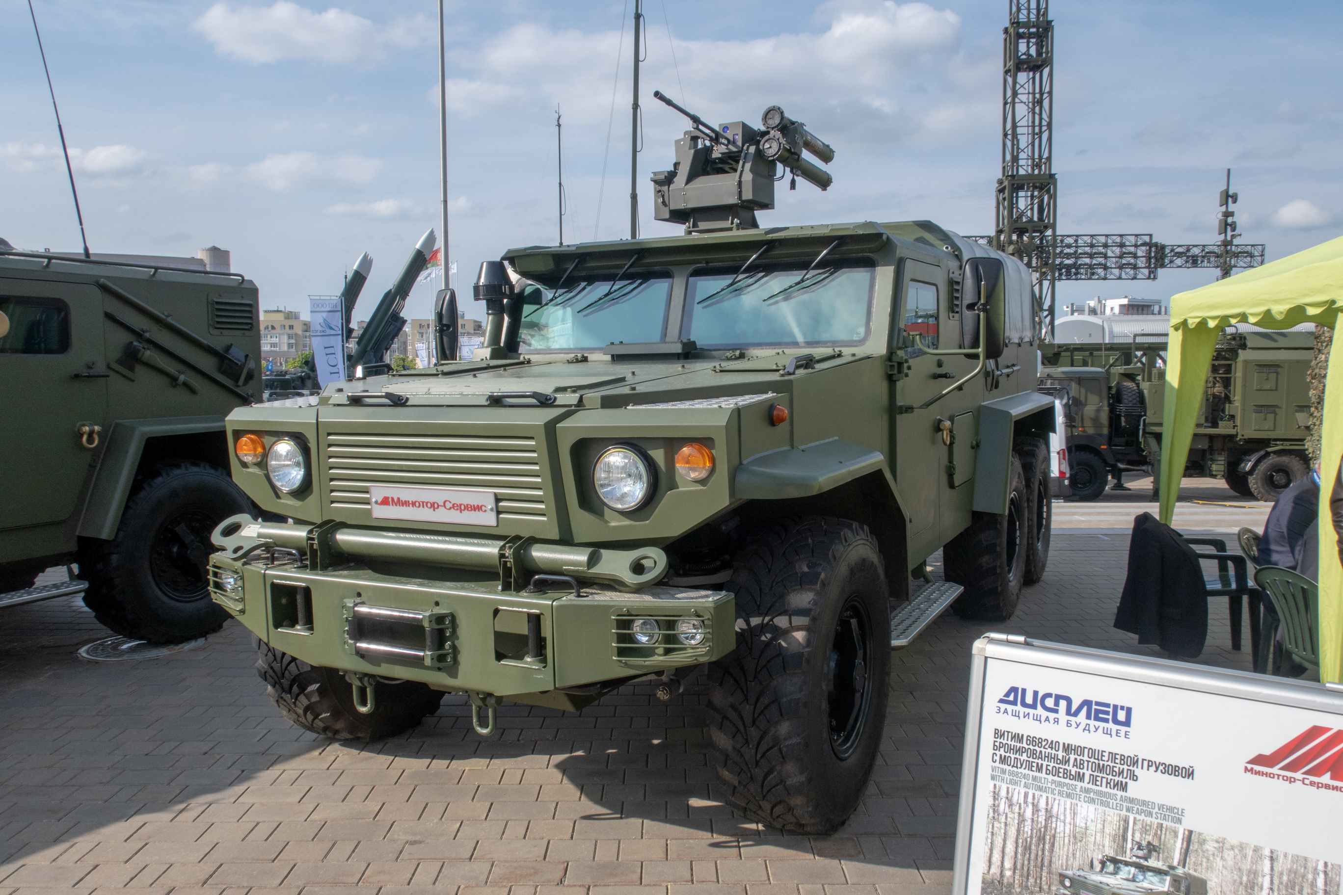 Belarusian-produced Vitim-668240 6x6 multi-purpose vehicle with automatic remote controlled weapon station (PKT machine gun 7.62 mm, 2 RPG-26 and other options). Photo taken at Milex-2019 arms and military machinery exposition (Minsk, Belarus)